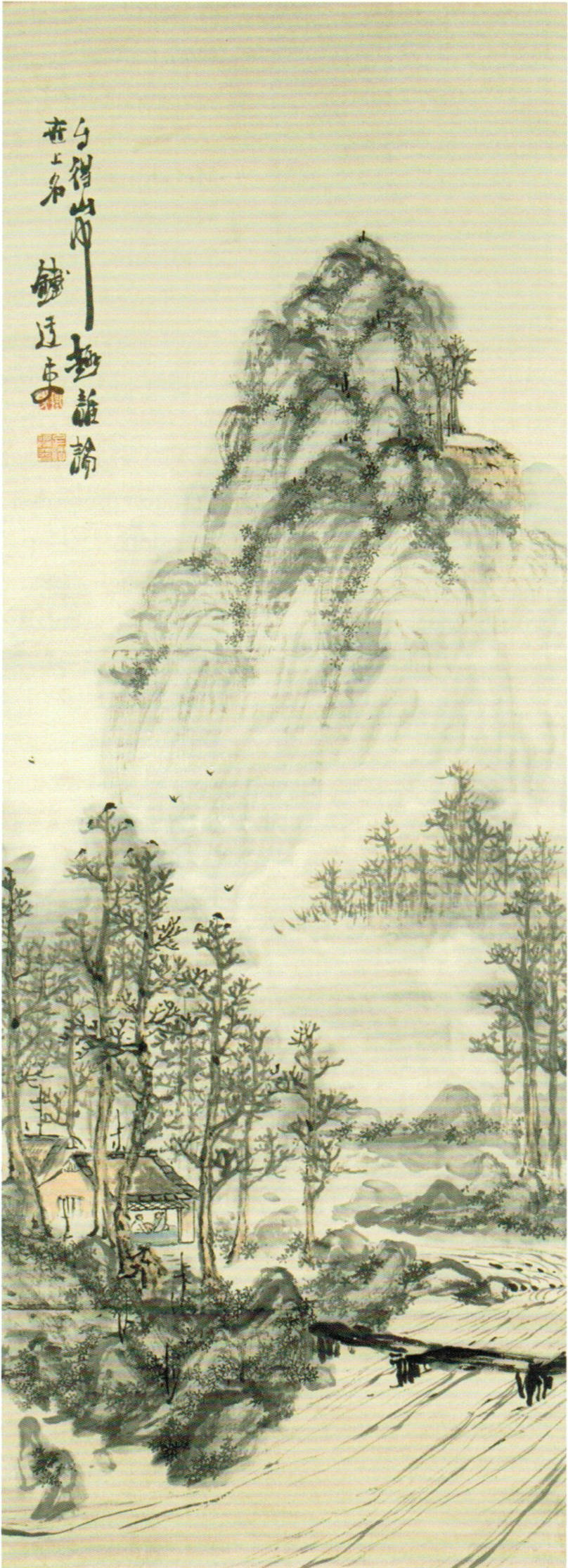 Landscape by Tomioka Tessai (1836-1924), early Meiji period, Museum of East Asian Art, Cologne